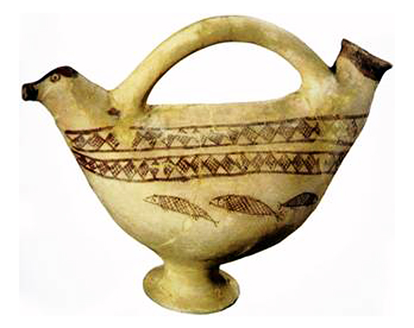 A Clay Pot from Tal-e Bakon, Iran, 4000 BC, National Museum of Iran